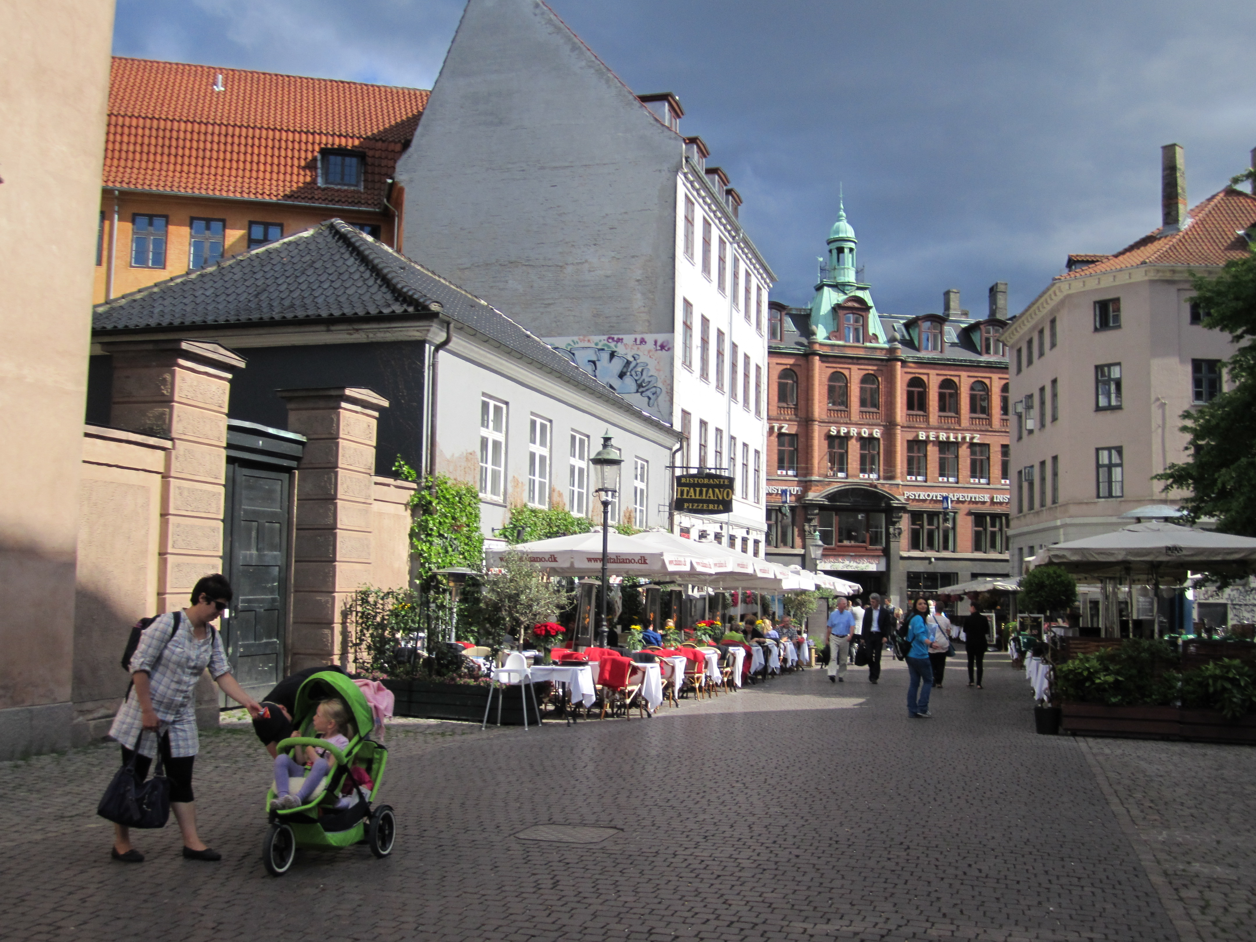 The southern end of Fiolstræde in Copenhagen, Denmark